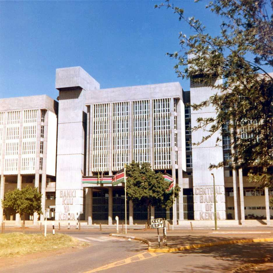 Central Bank of Kenya Kiswahili: Benki Kuu ya Kenya